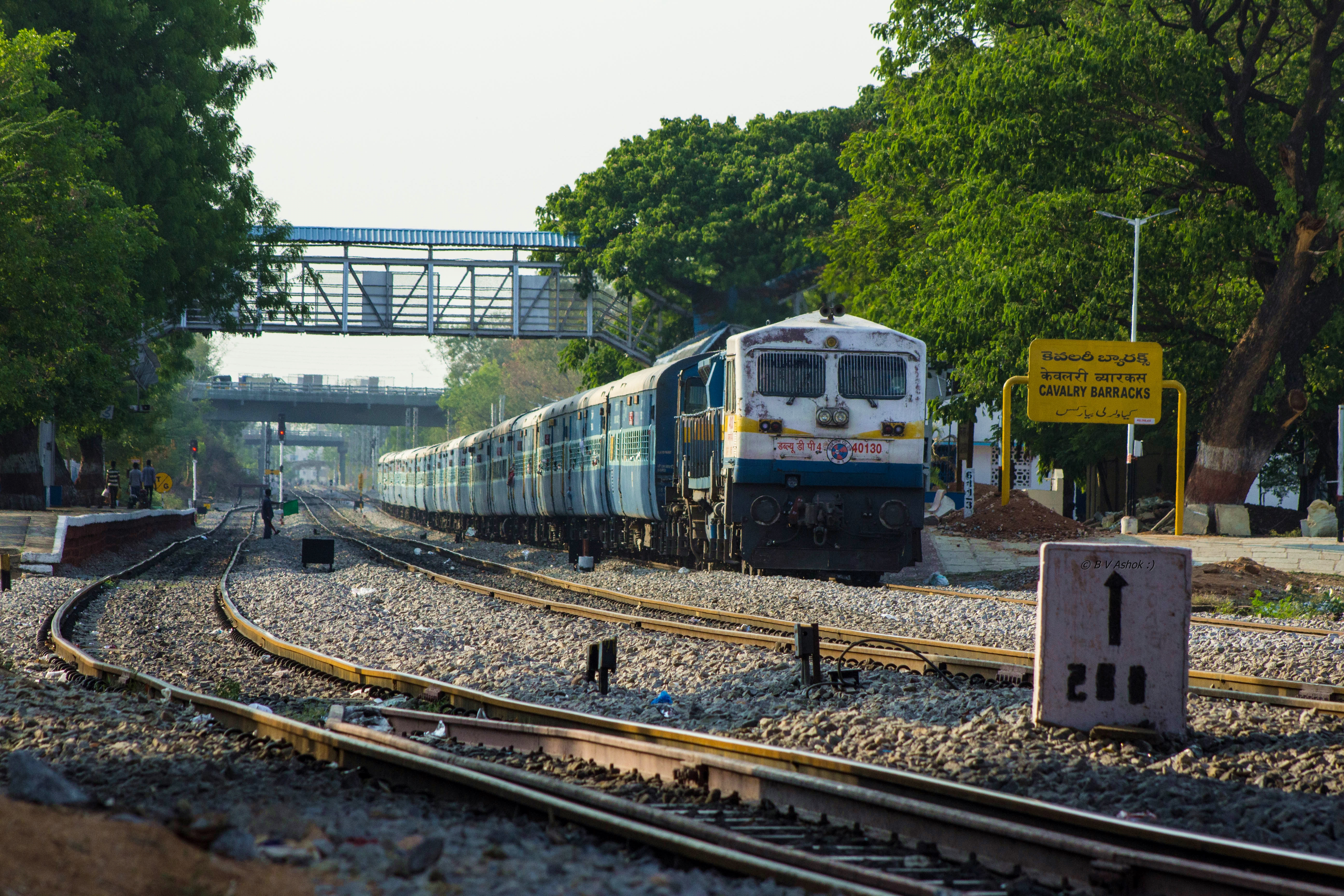 GY WDP-4D 40130 cruising through mainline of Cavalry Barracks with 12766 Amaravati - Tirupati Superfast Express...